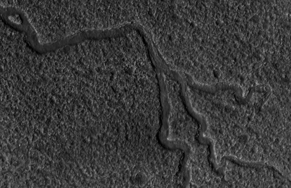 Channels in Lyot Crater as seen by hirise. Location is 49 N and 30.8 E.